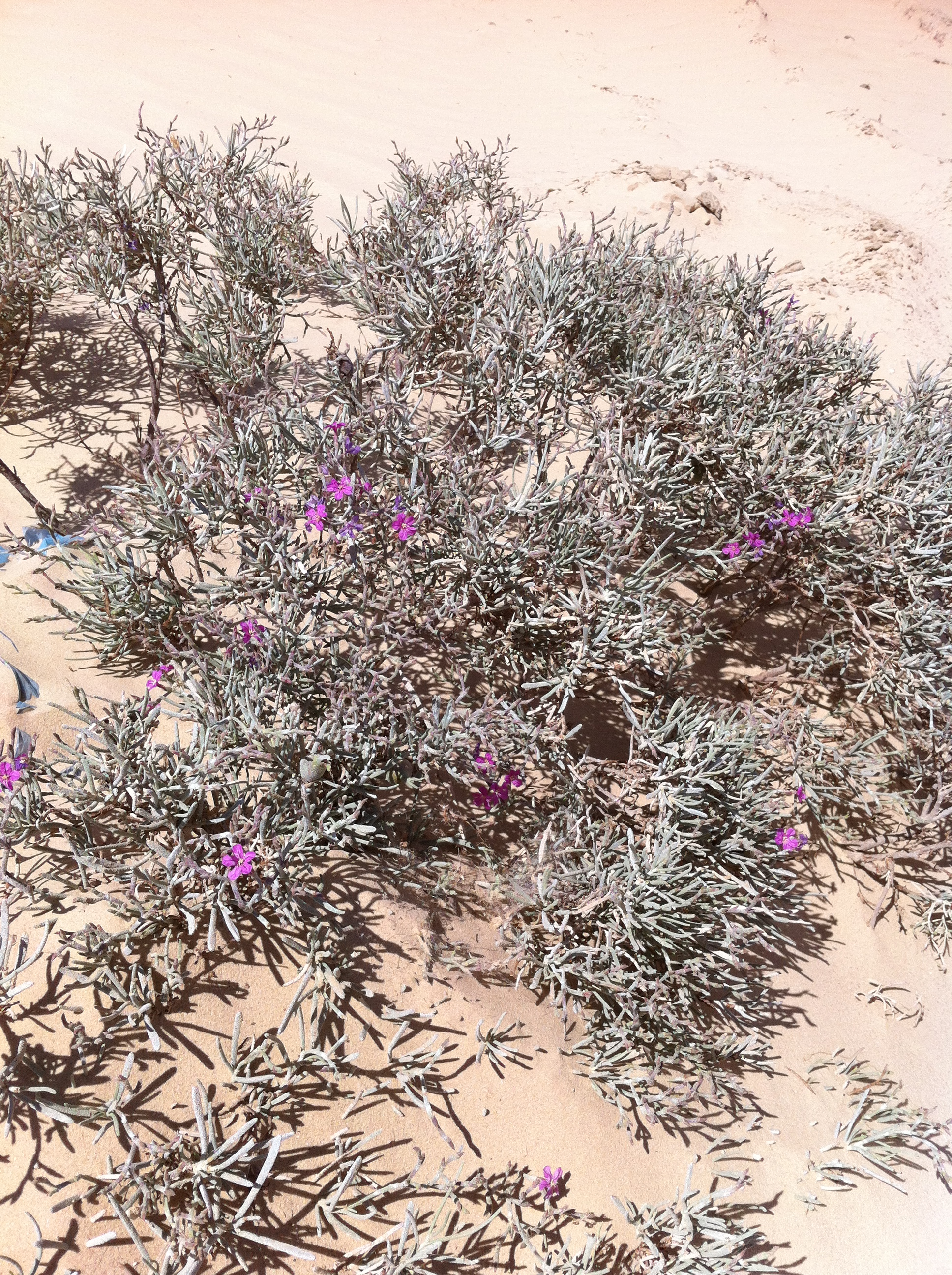 Limoniastrum guyonianum, near Tozeur, Tunisia